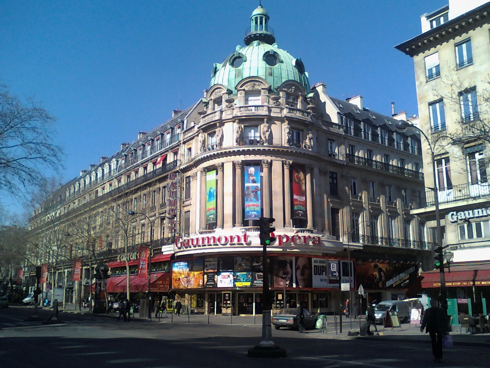 Movies Gaumont Opera on Bd de la Madeleine in Paris. Former Théâtre du Vaudeville